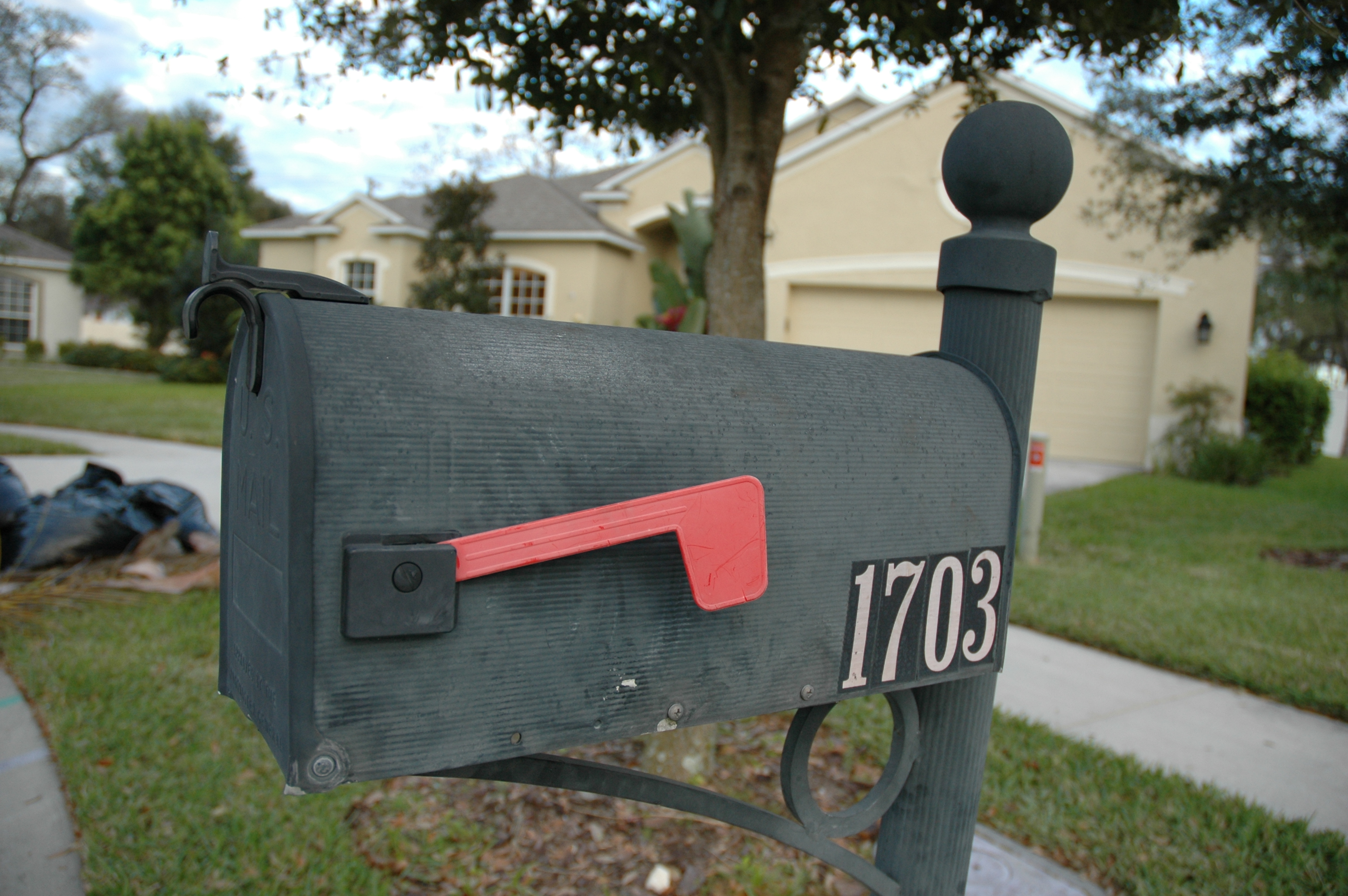 USA mailbox